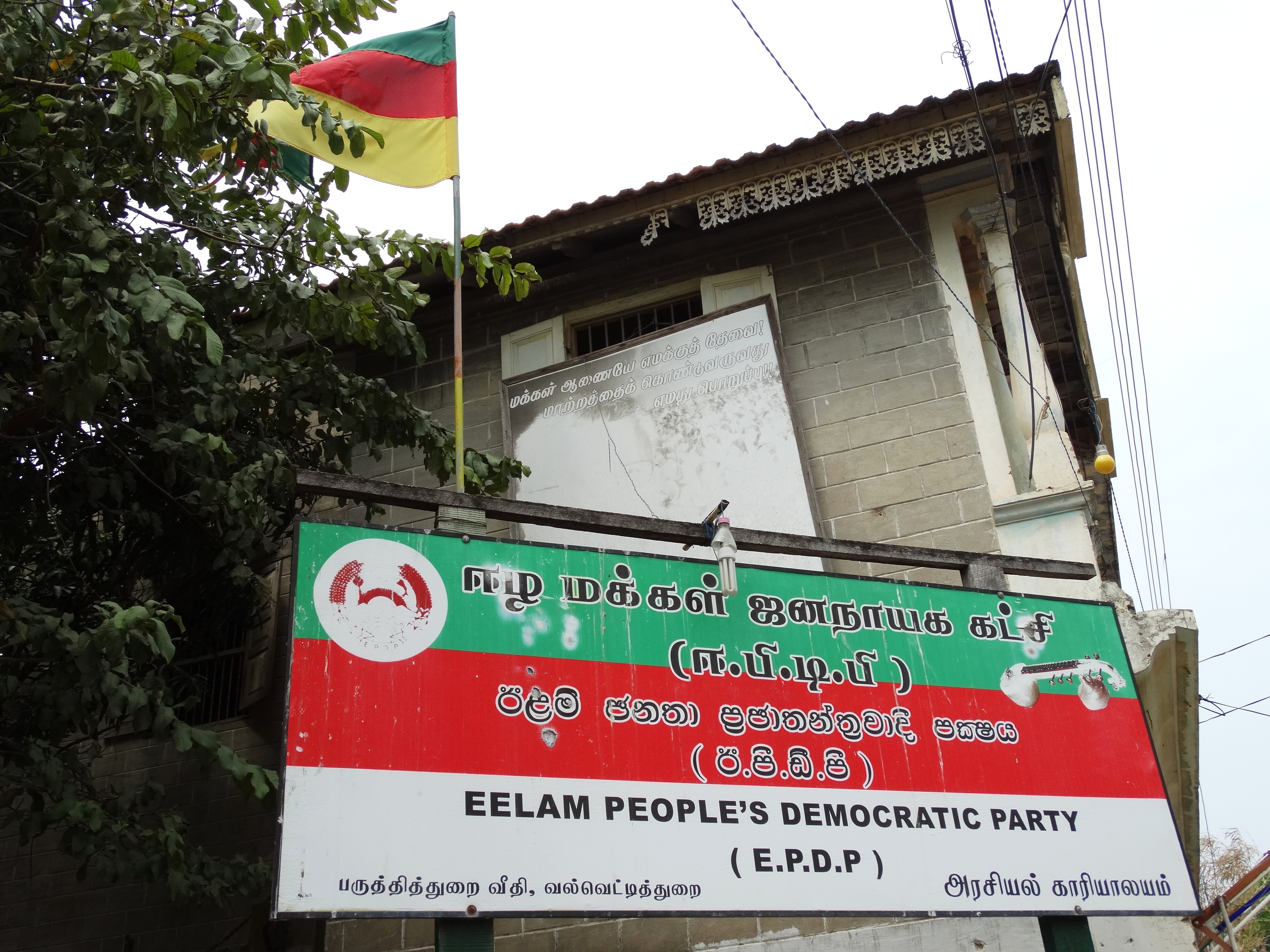 Eelam People's Democratic Party Headquarters - Valvettiturai - Jaffna Peninsula - Sri Lanka